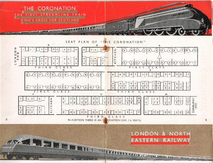 A scan of the seating plan from the spring - summer 1938 'Coronation' publicity booklet published by LNER